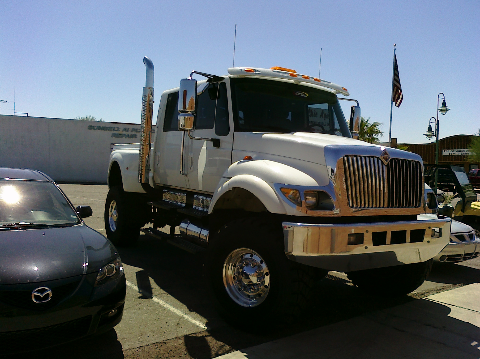 International CXT pickup truck photographed in a parking lot.